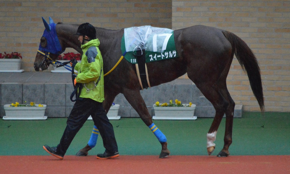 Japanese race horse Sweet Salsa at Chukyo racecourse.